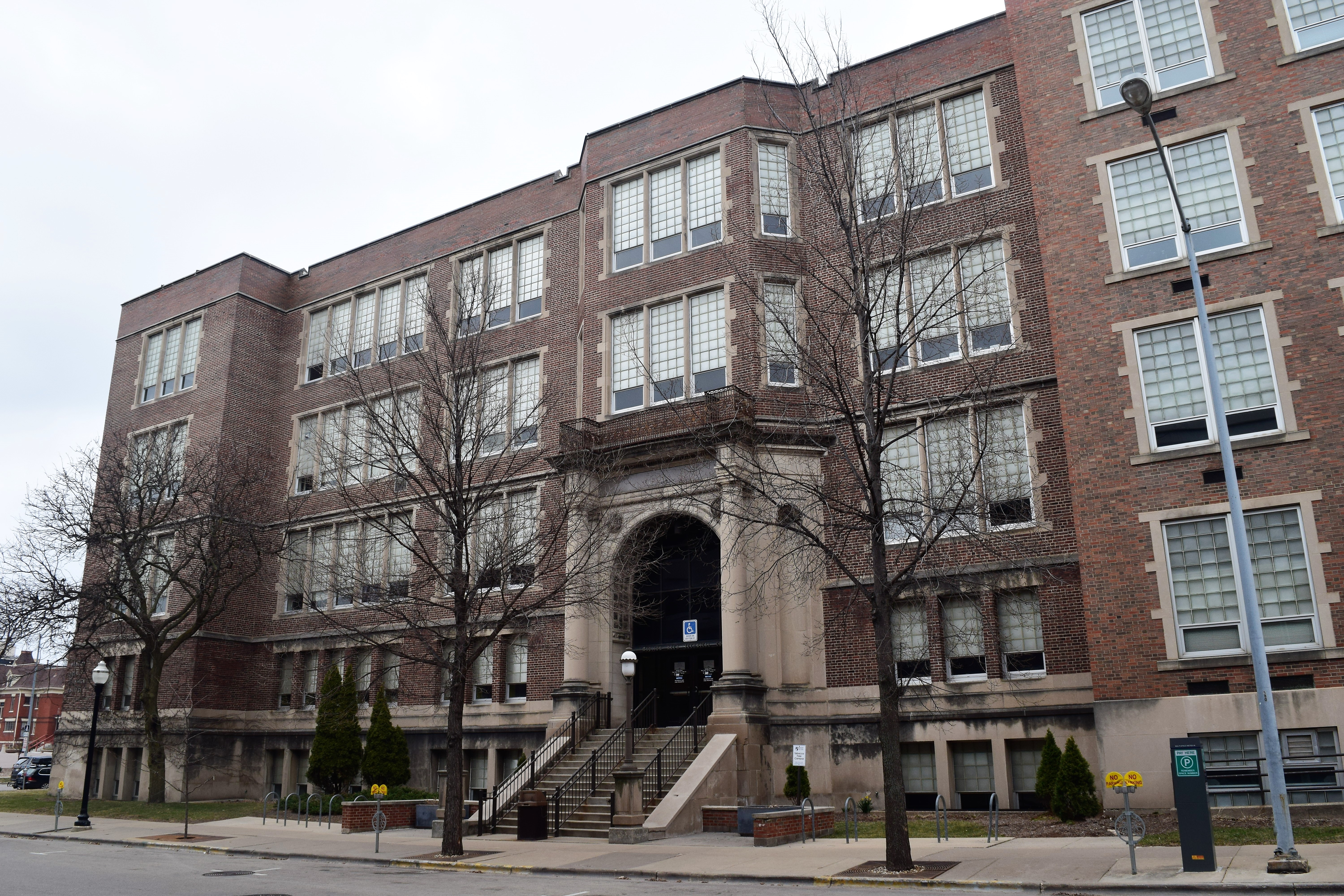 The Madison Vocational School building at 211 N. Carroll St. in Madison, Wisconsin. The building is now part of Madison Area Technical College.